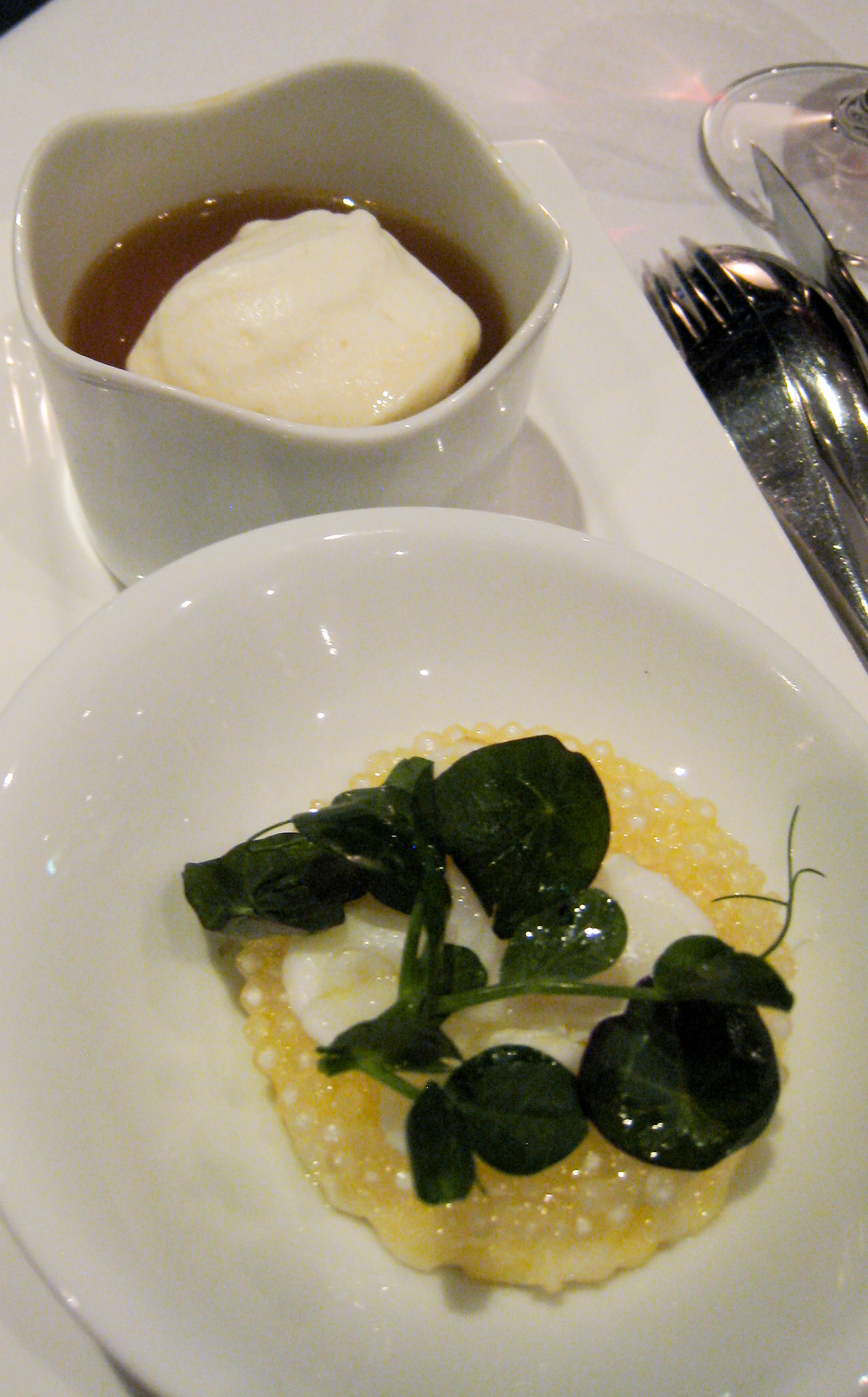 Gently poached Southern rock lobster, lobster and tapioca dumpling, lobster velvet, almond cream